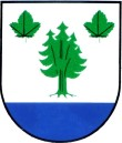 Unknown language: Tisova znak